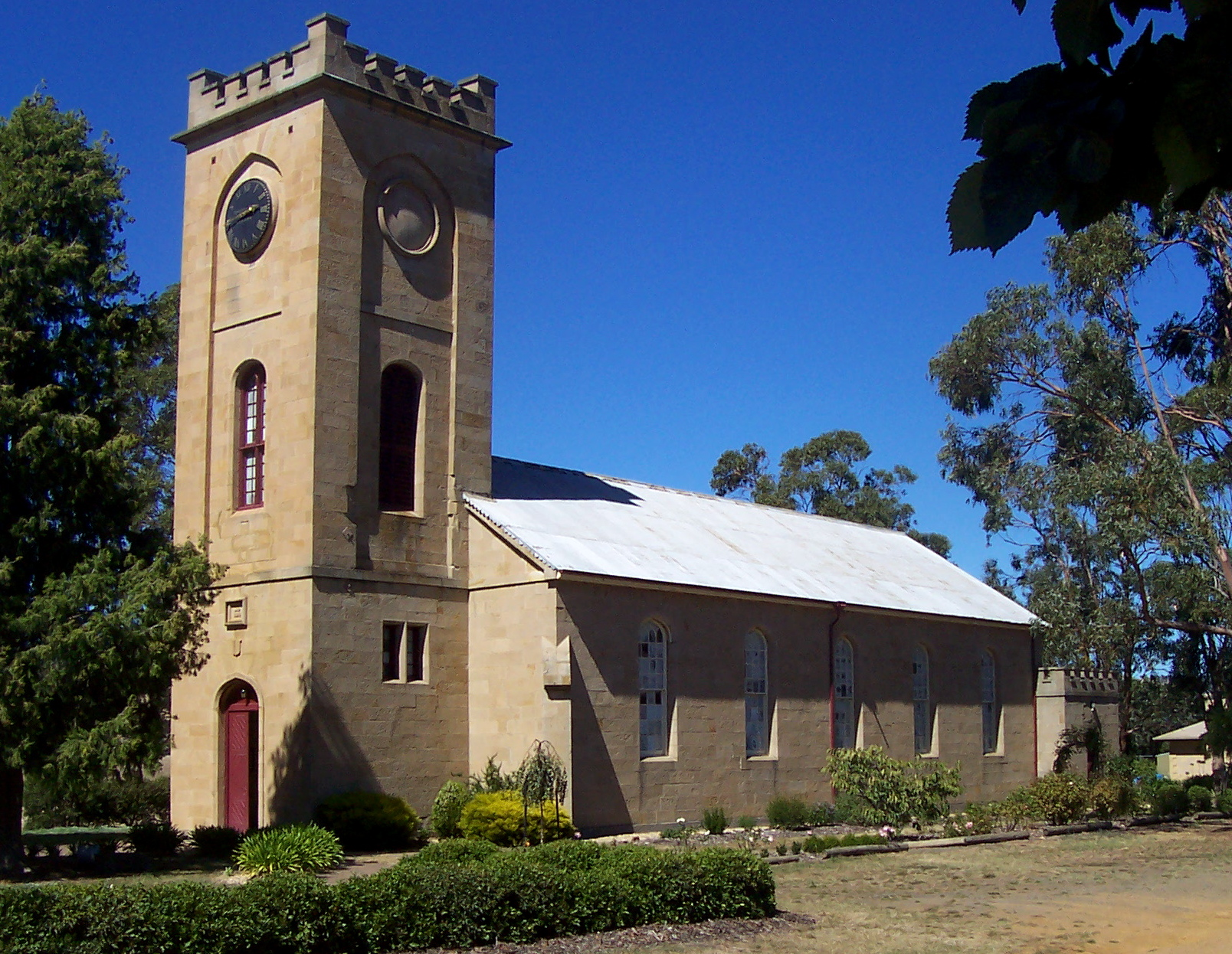 A photo of St Luke's Anglican Church in Richmond, Tasmania